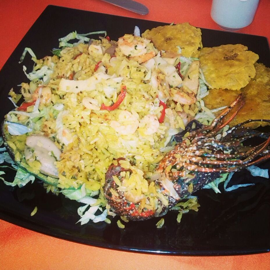 Sea food rice, Colombia